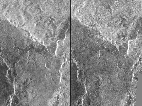 Crosseye-view stereogram of northeastern part of Cleopatra crater on Venus. Made from Magellan radar images, which were made in Left-Look and Stereo-Look mode. Lava channel (Anuket Vallis) is seen. Left image was obtained with incidence angle (measured from vertical line) about 26.0°, right one with 33.4° (Guide to Magellan Image Interpretation, chapter 4, Table 4-1, chapter 5, The Geometry of Radar Imaging). Image size is 85×125 km.